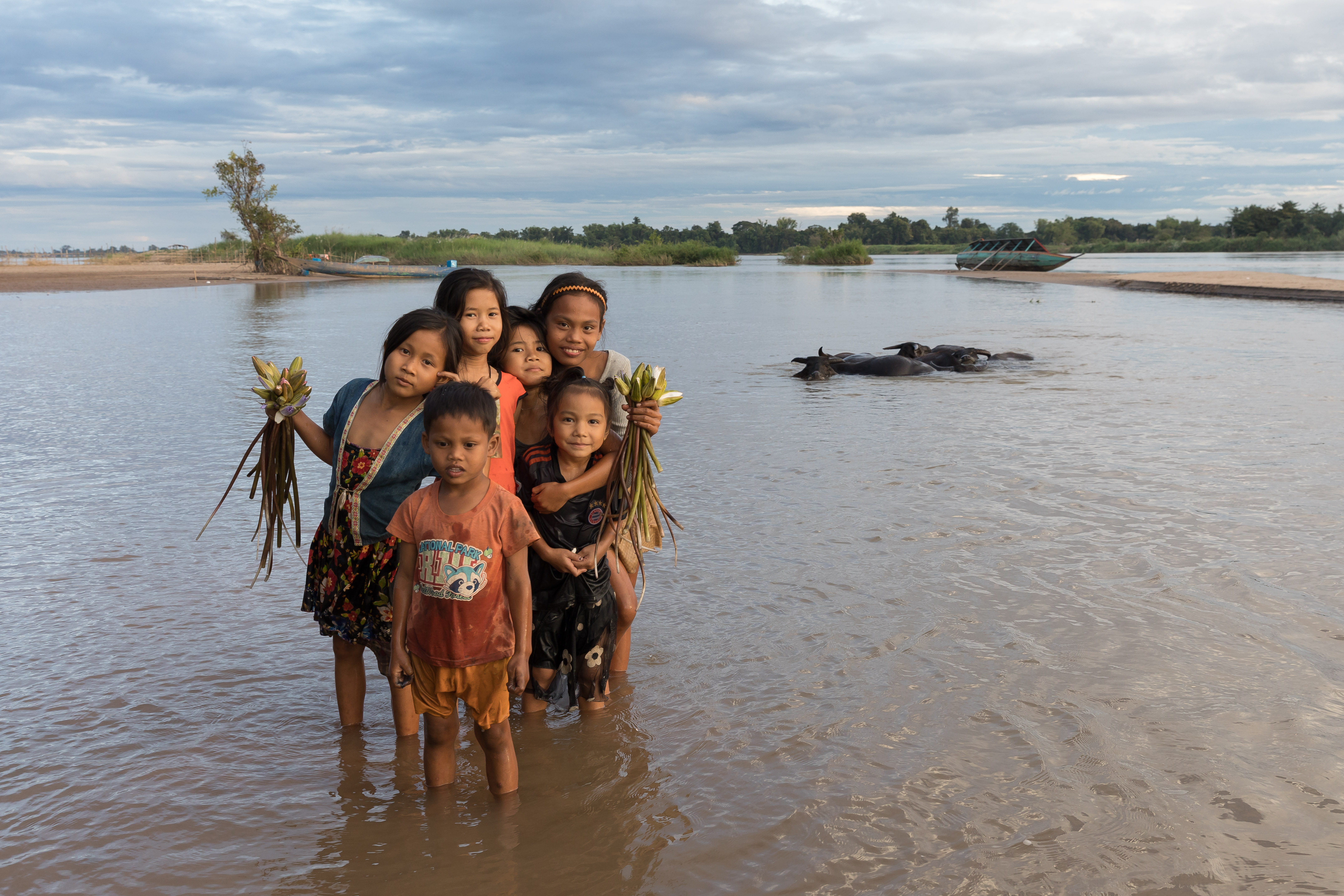 Six children standing in the Mekong river, some with lotus flower buds in their hands, bathing with buffalos at sunset in front of a boat.